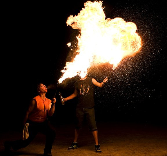 Aaron McKim fire breathing in Victoria Park, St.John's, NL